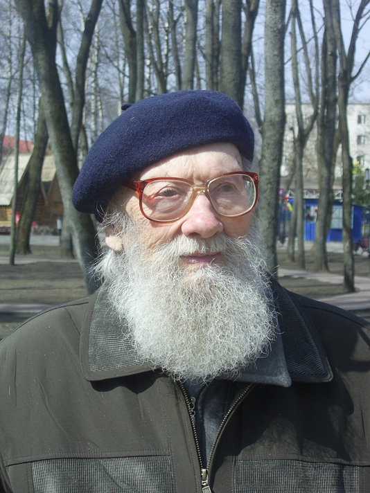 Valentin Dinaburgsky, Russian poet.